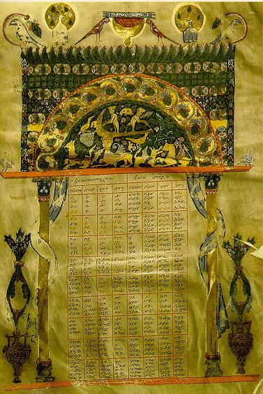 11th century Armenian Mughni gospel